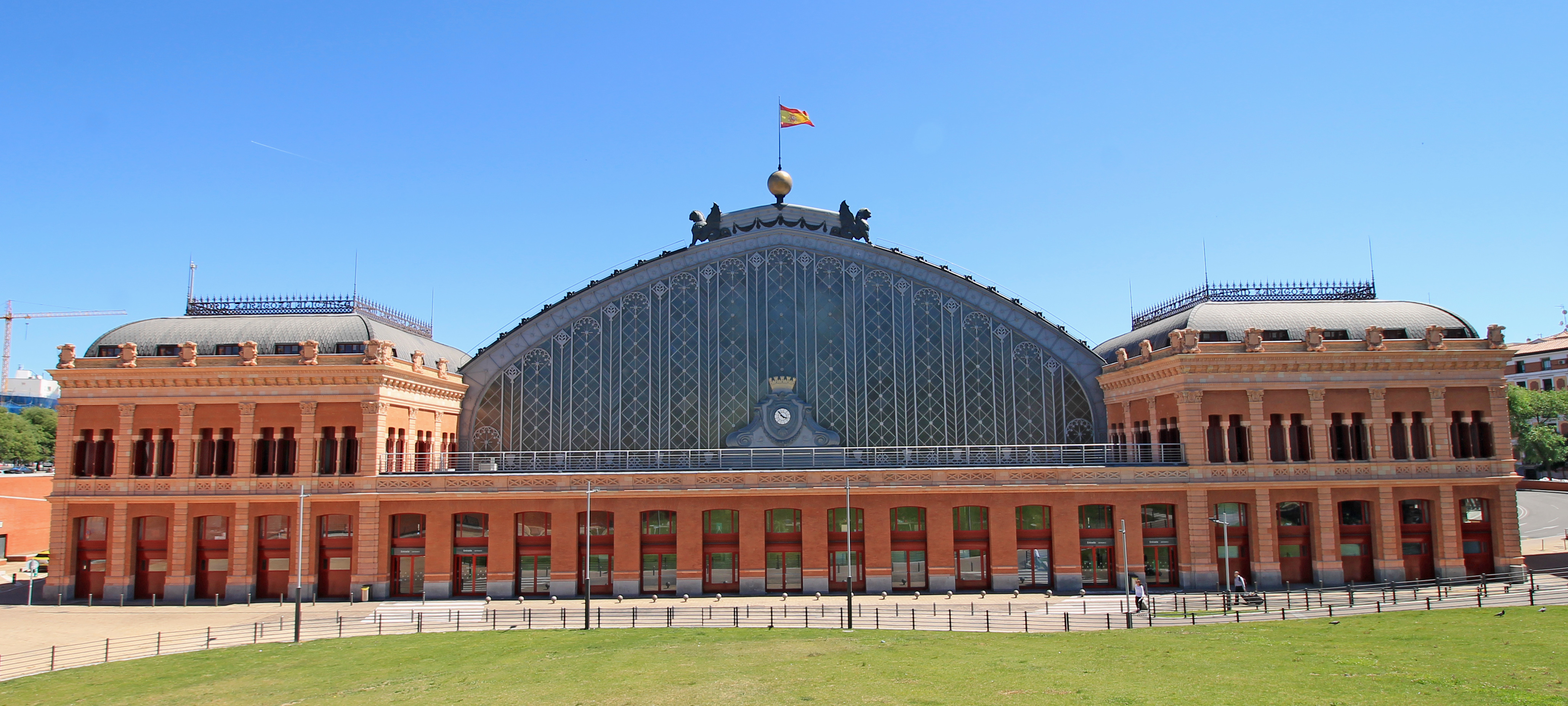 North-west façade of Atocha railway station in Madrid (Spain).